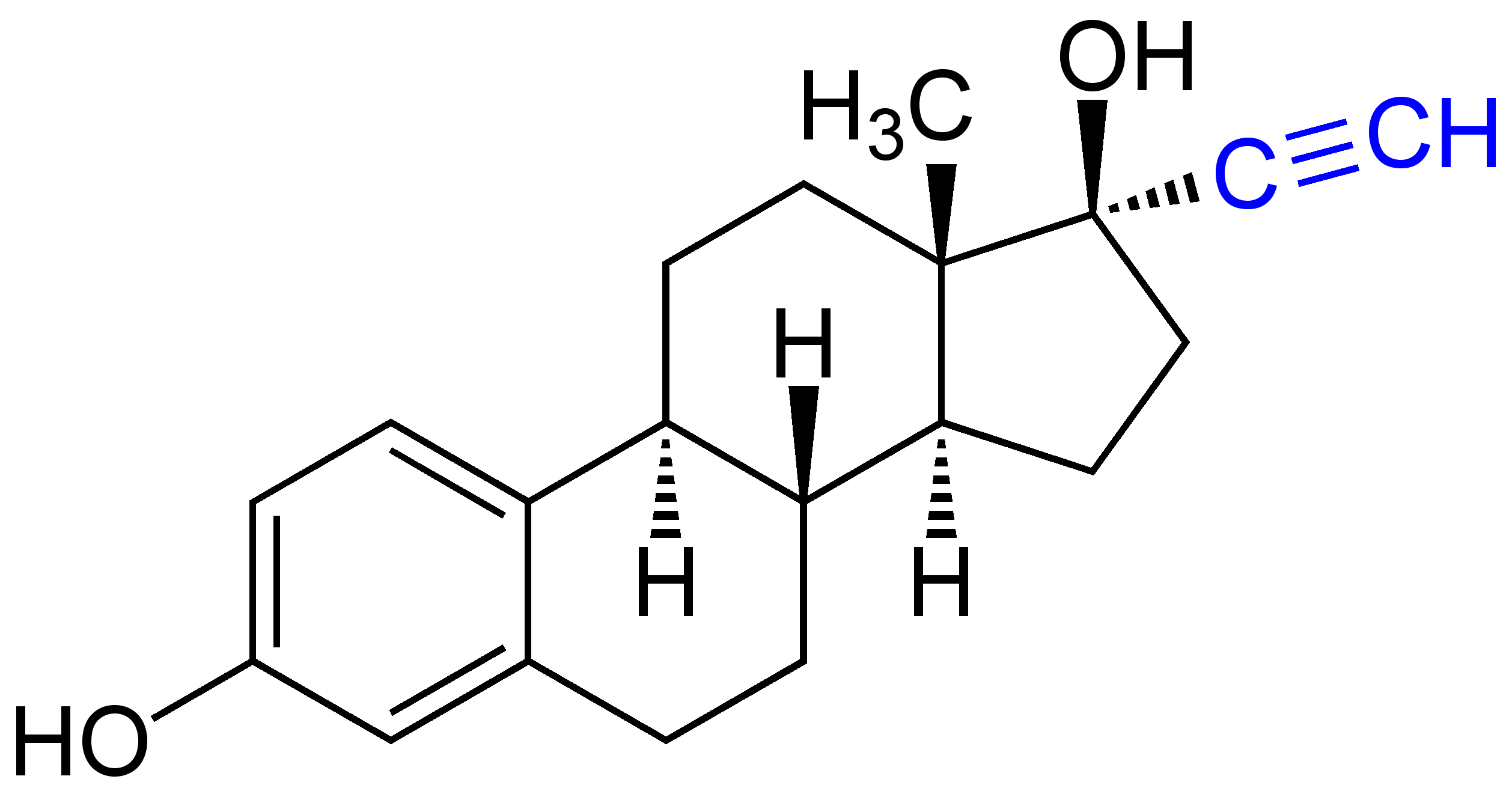 Ethinylestrandiol_Structural_Formulae